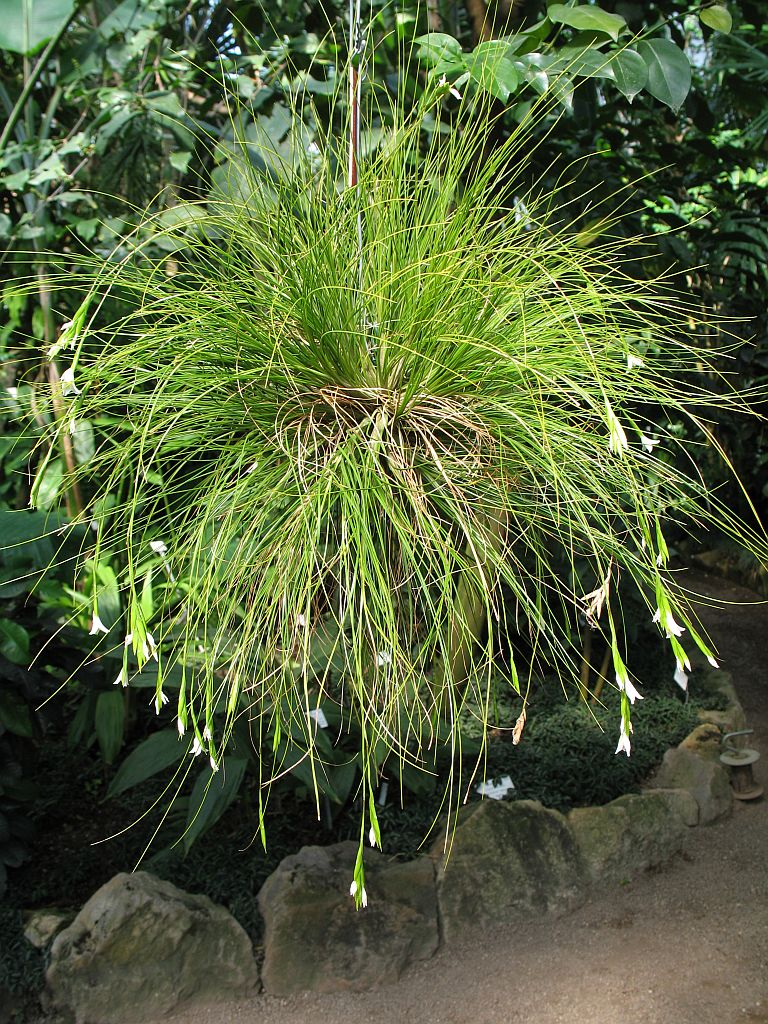 Tillandsia alvareziae, in cultivation at the Botanical Garden of Heidelberg, Germany.